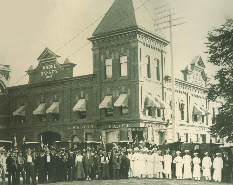 Opened in the Fall of 1897, George Weston's then state-of-the-art “Model Bakery” bread factory at the corner of Soho and Phoebe streets in Toronto, Canada, had an initial production that averaged 3,200 loaves a day, and a capacity of 6,500 loaves.